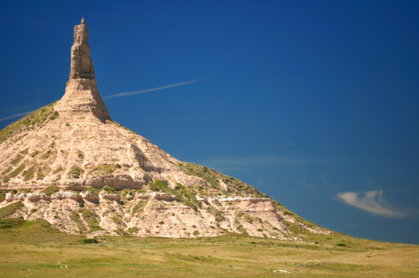 Photo of Chimney Rock, near Scottsbluff, Nebraska